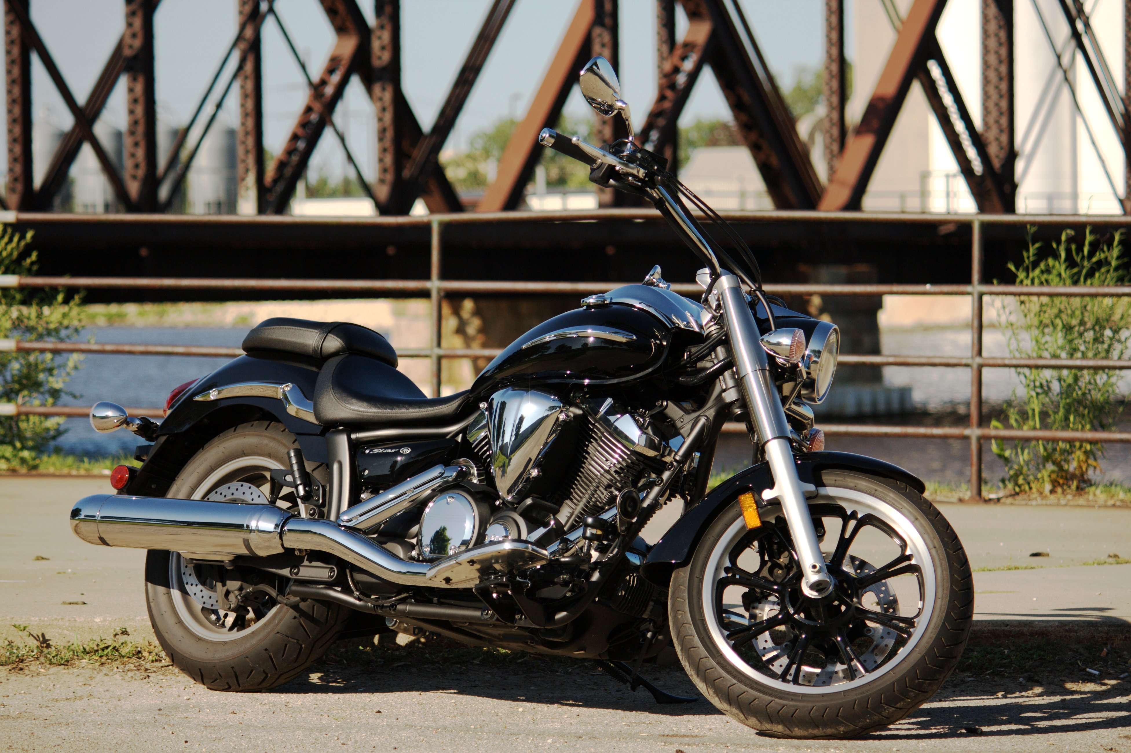 Yamaha V Star 950 (aka DragStar 950, XVS950) motorcycle